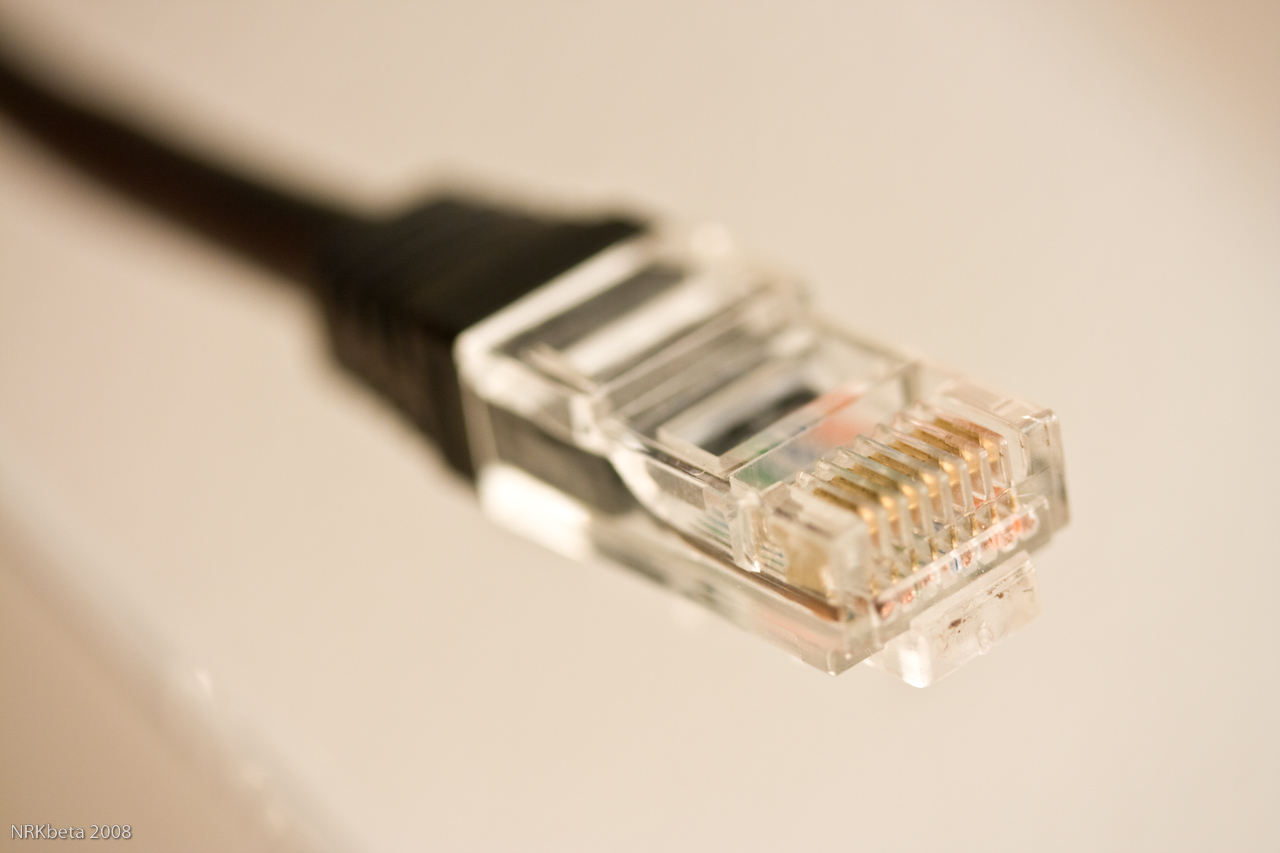 Network cable up close